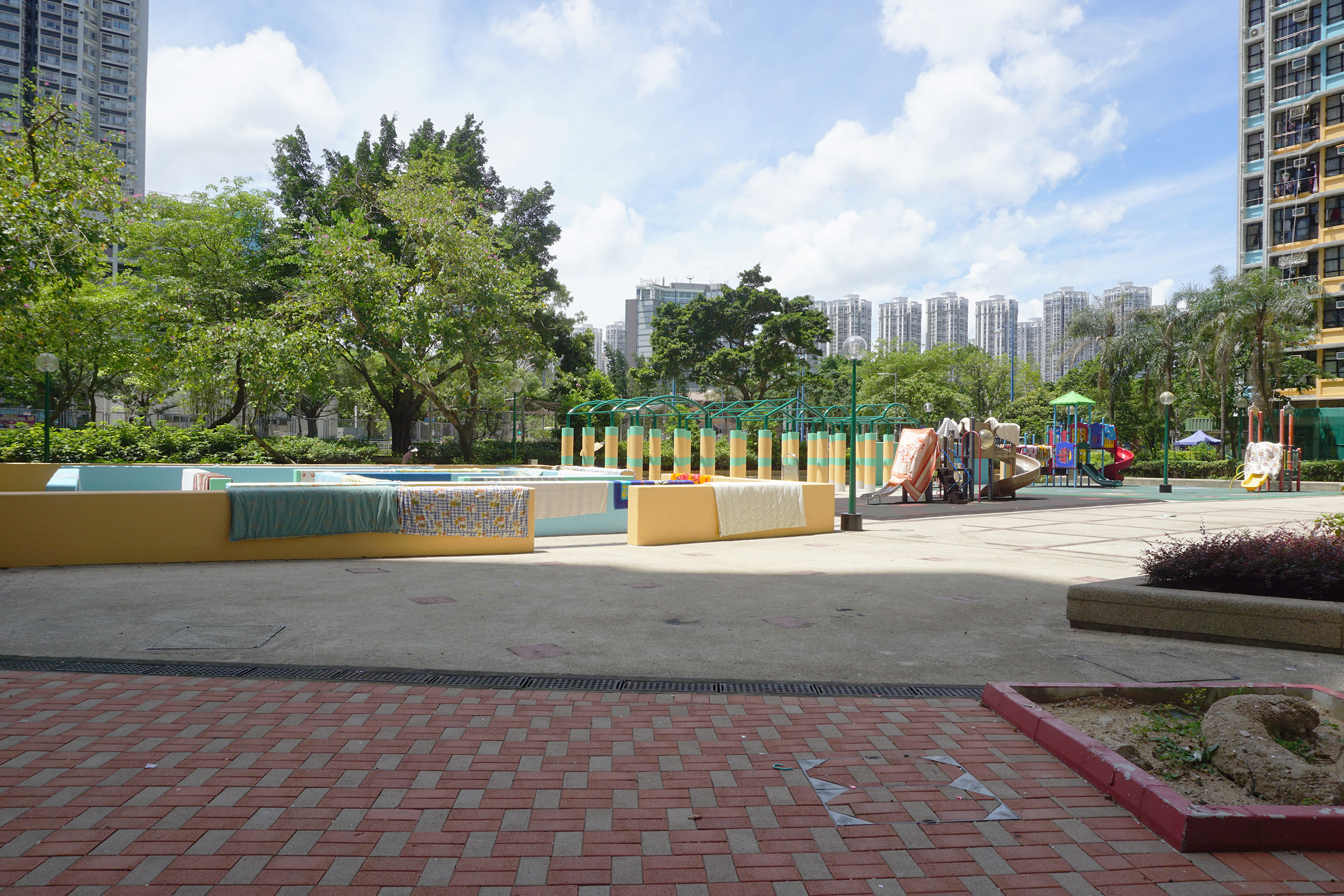 Tin Yiu Estate in Tin Shui Wai, Hong Kong.